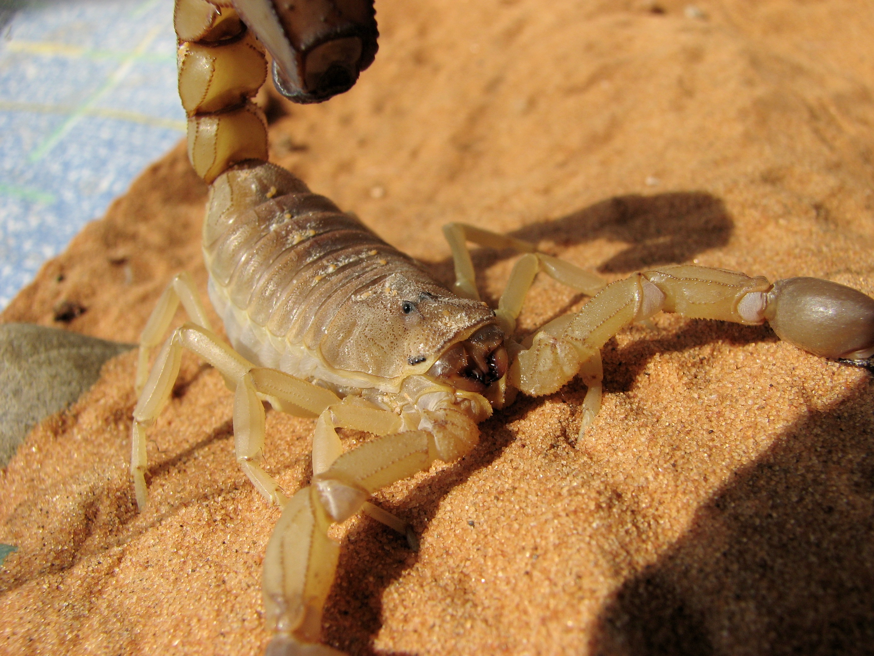 Androctonus australis, adult female.